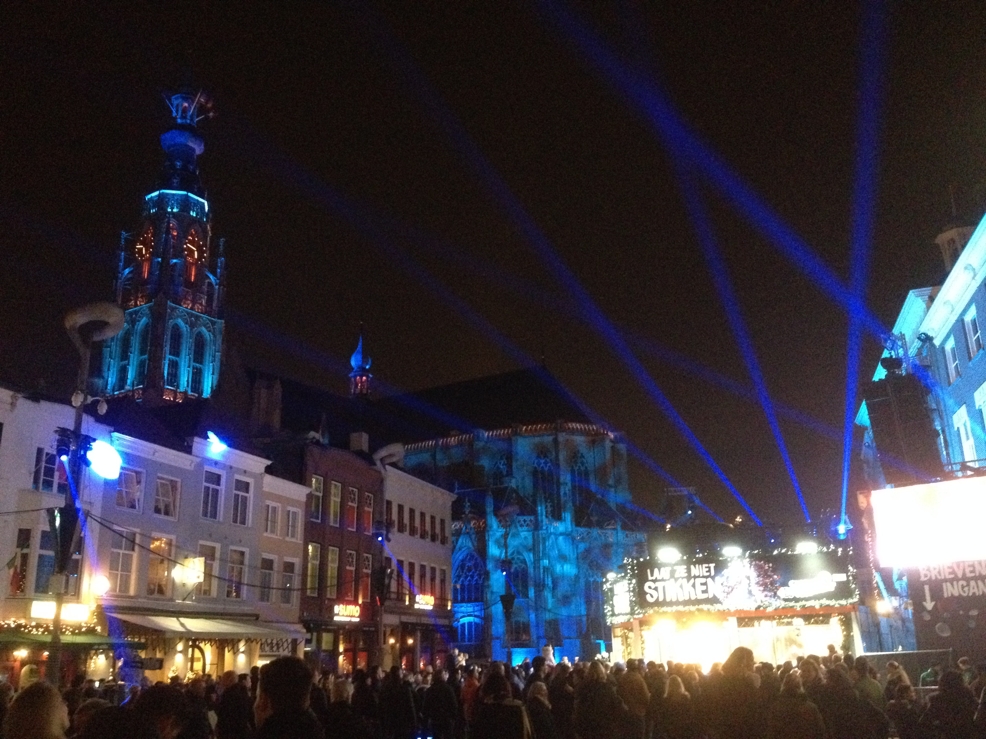 The Grote Markt in Breda during the 2016 edition of NPO 3FM Serious Request.